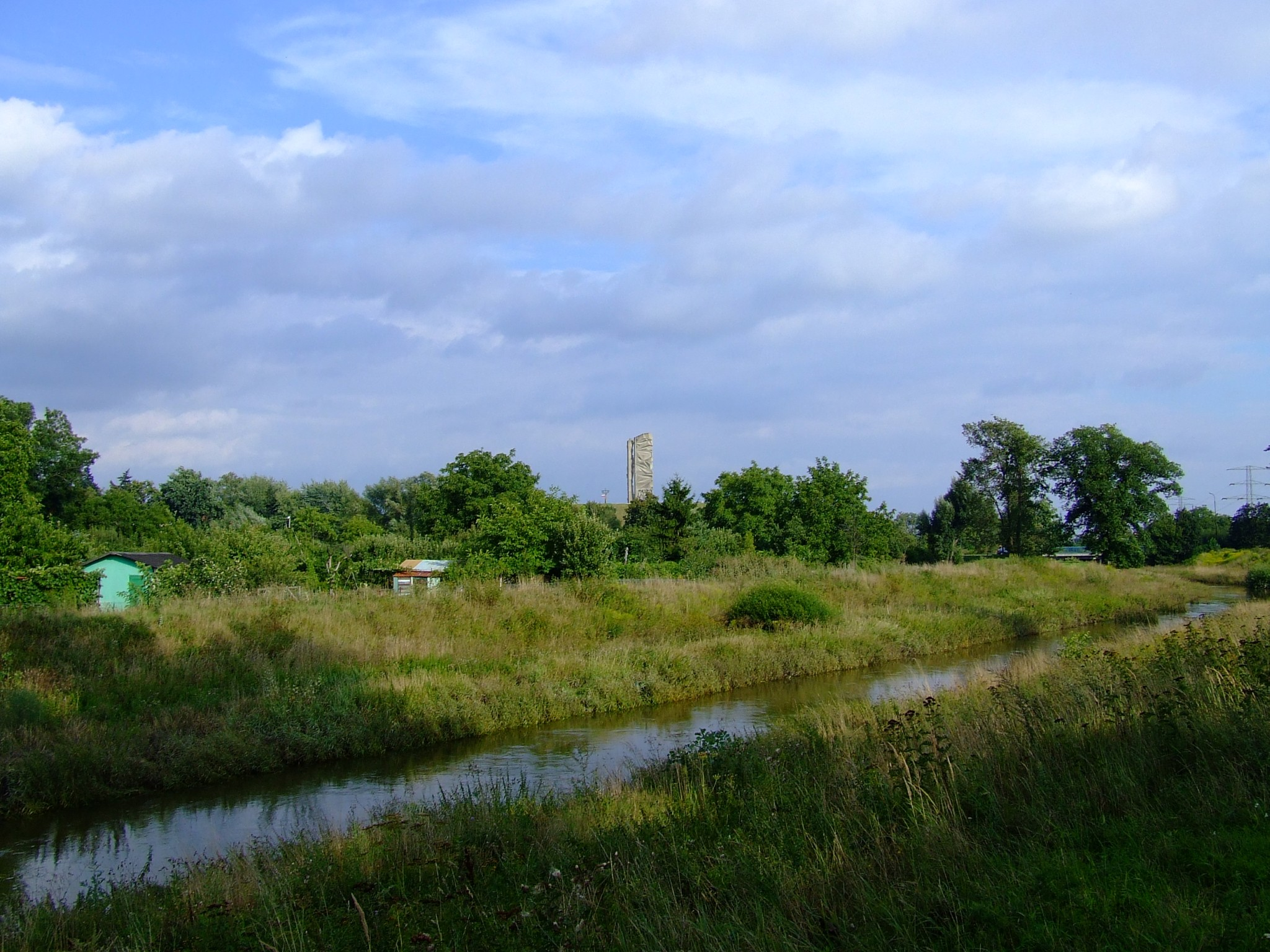 Ślęza river in Wrocław, Poland. In background - monument at Polish Soldiers' Cementery.